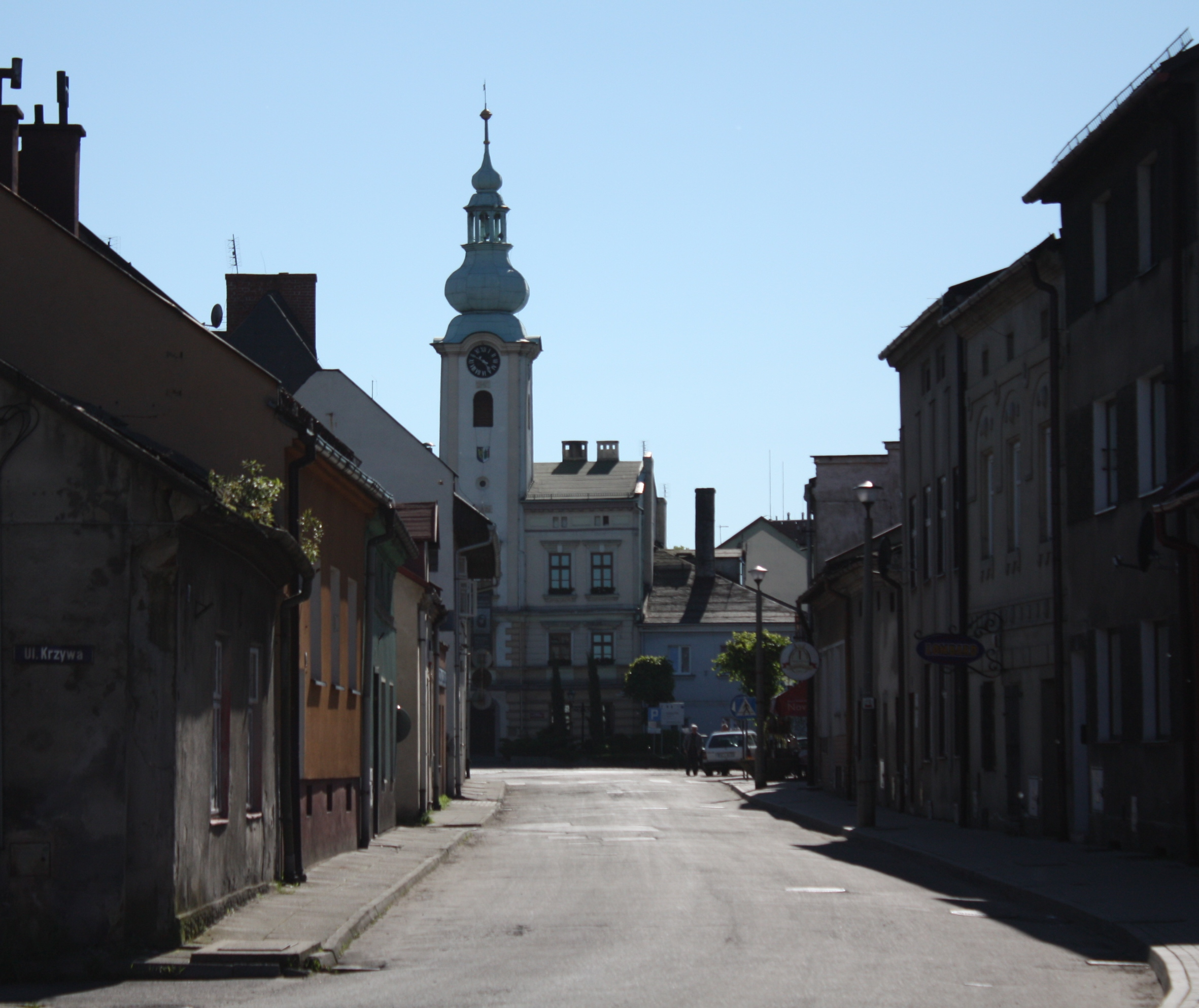 Londzina Street in Strumień (Silesia Voivodeship), Historic center with Town hall